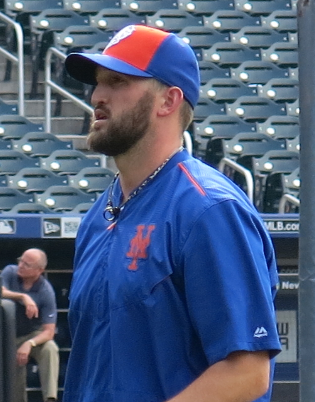 Jonathon Niese of the New York Mets, August 12, 2016.